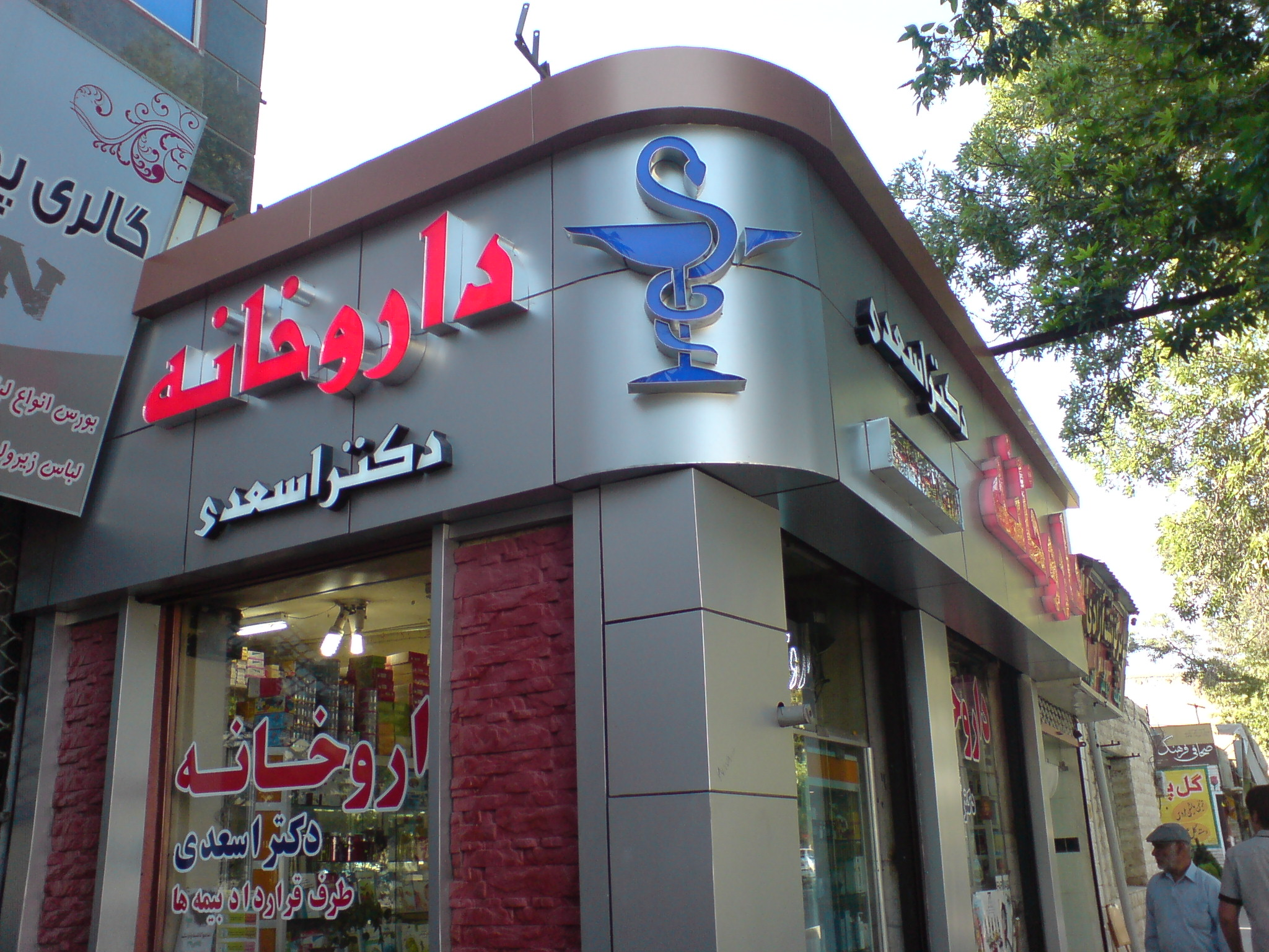 Dr.As'di Pharmacy